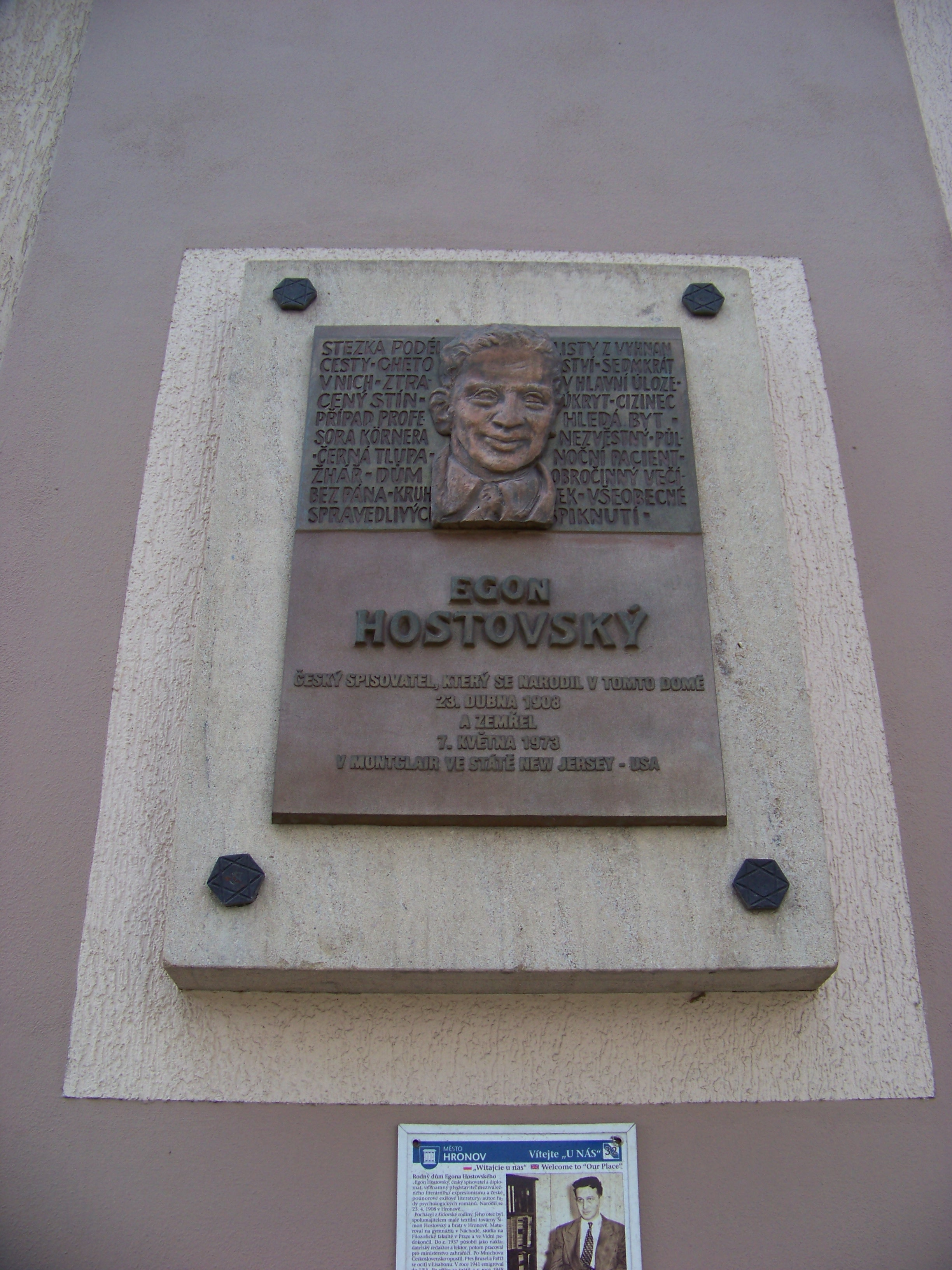 Hronov, Náchod District, Hradec Králové Region, Czech Republic. Hostovského 247, a plaque to Egon Hostovský.